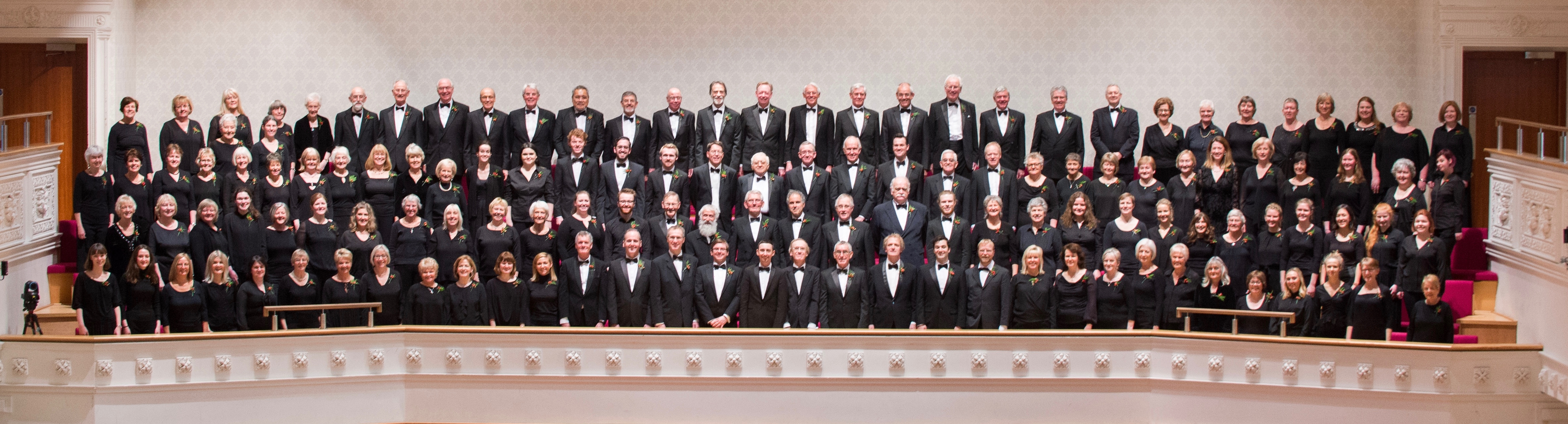 Bearsden Choir at the City Halls 2018